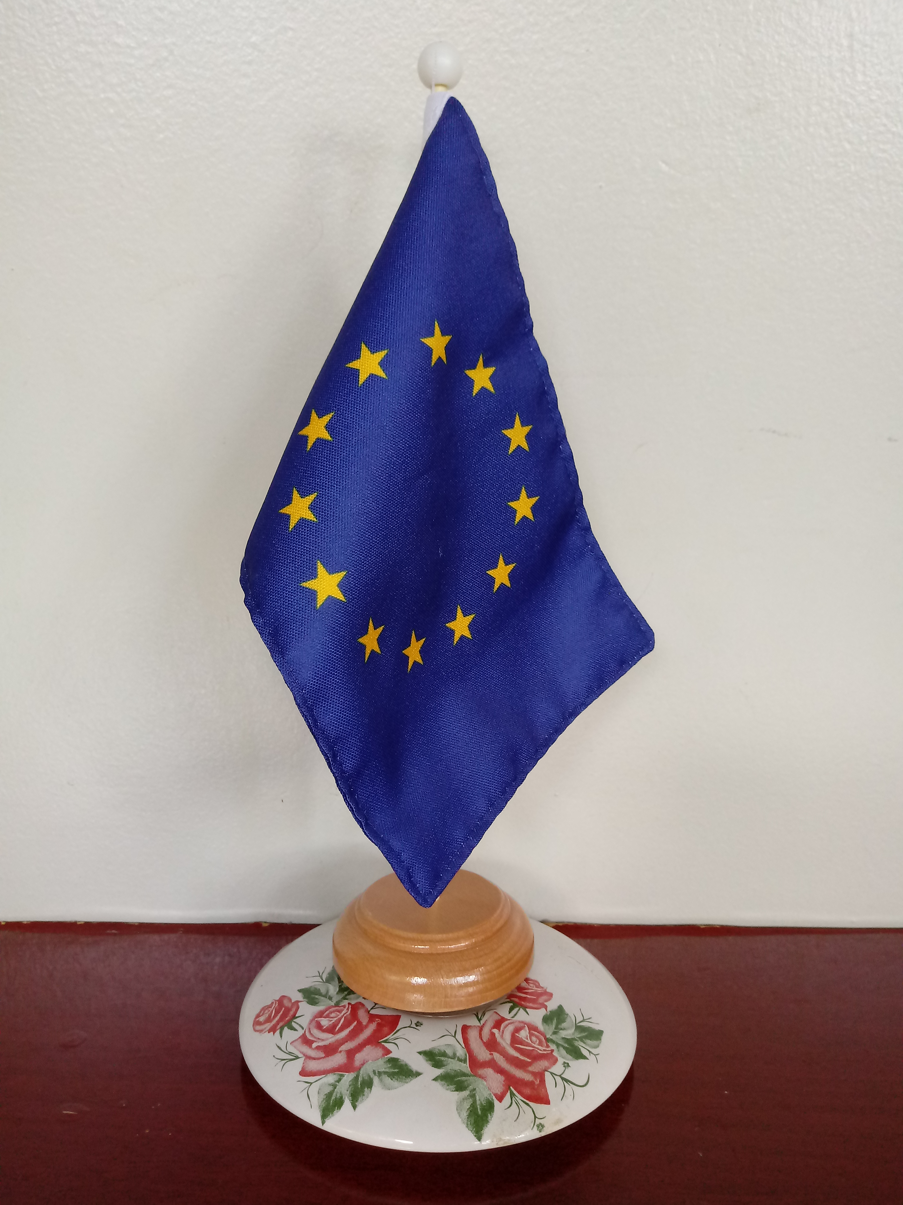 Azulejo,European Union flag. Mini monument.